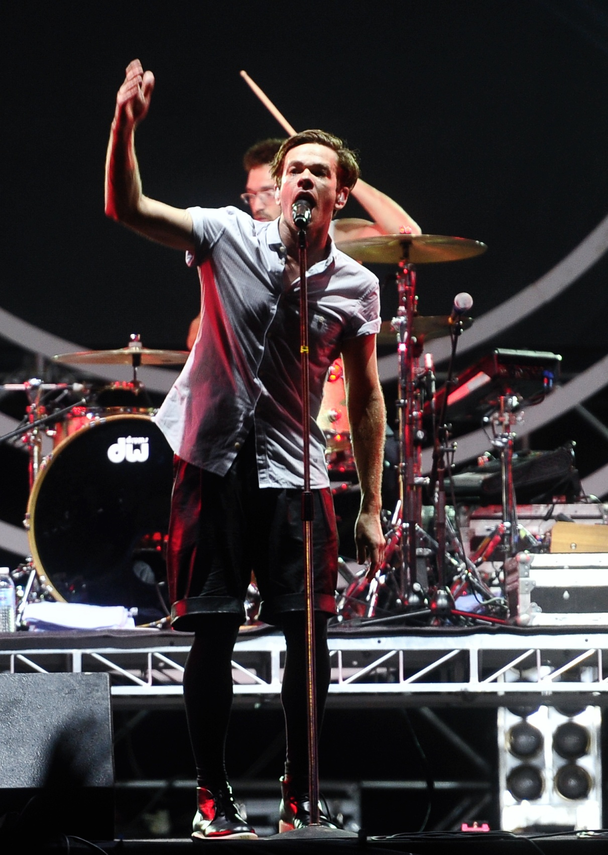 SEPANG,17/03/2013. FUN during Future Music Festival Asia 2013 at Sepang. Pix Firdaus Latif